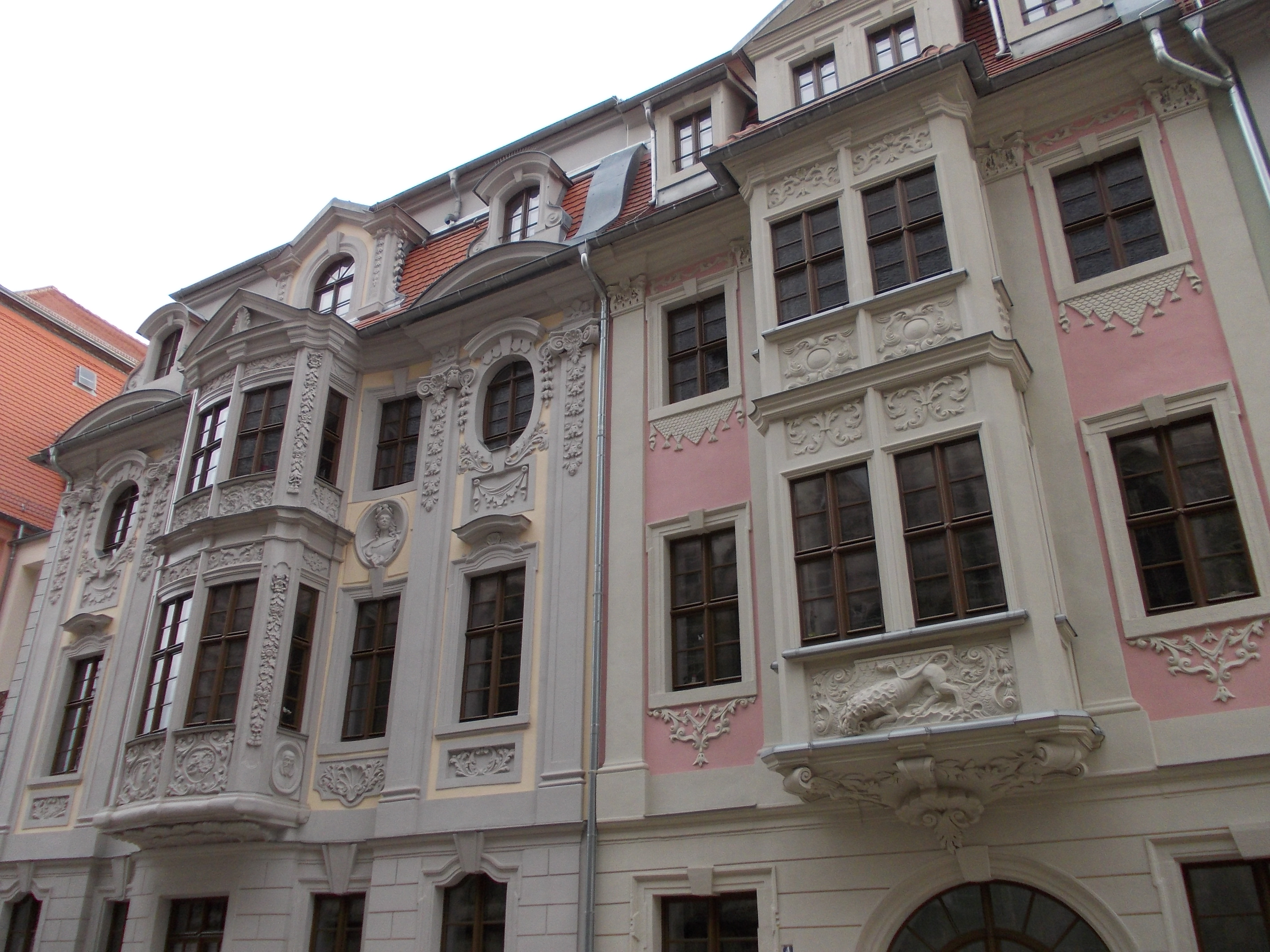 No. 4 at Marienstrasse in Weissenfels (district of Burgenlandkreis, Saxony-Anhalt)